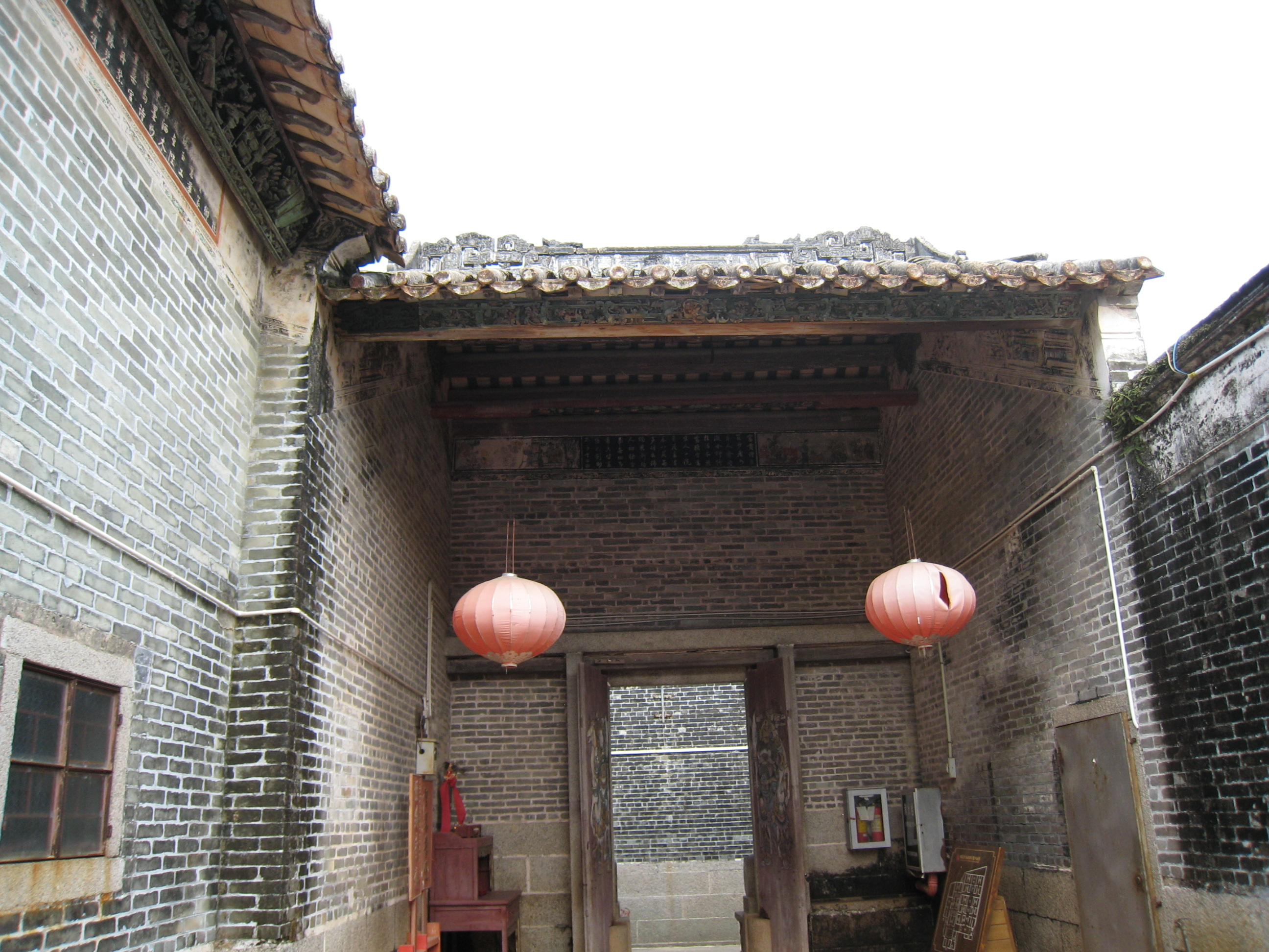 the back of the main entrance of Laifu